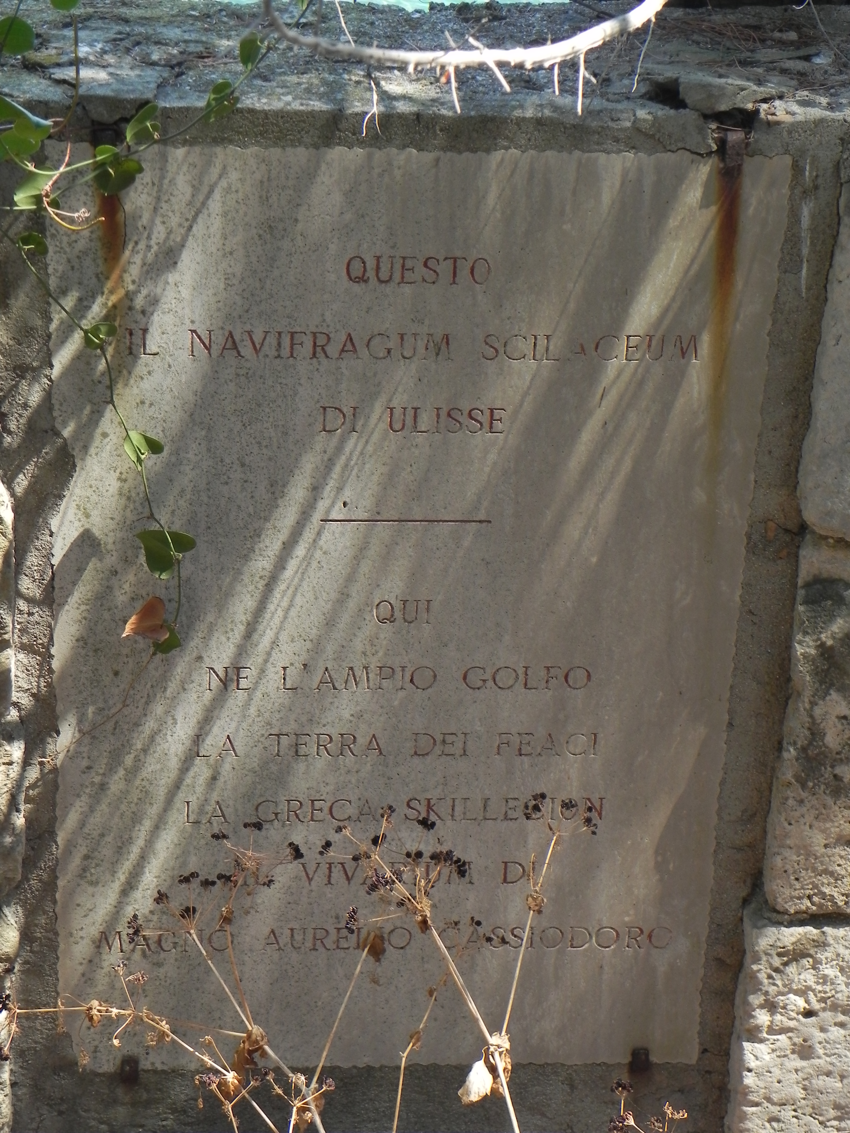 In ricordo del naufragium di Ulisse e dell'operato di Cassiodoro